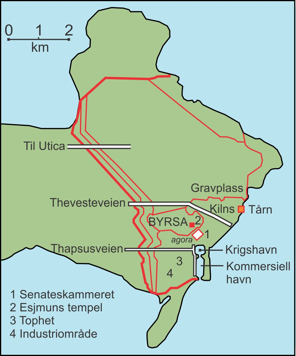 Urban map over Carthage (new drawing besed upon Carthage.gif) with Norwegian text)